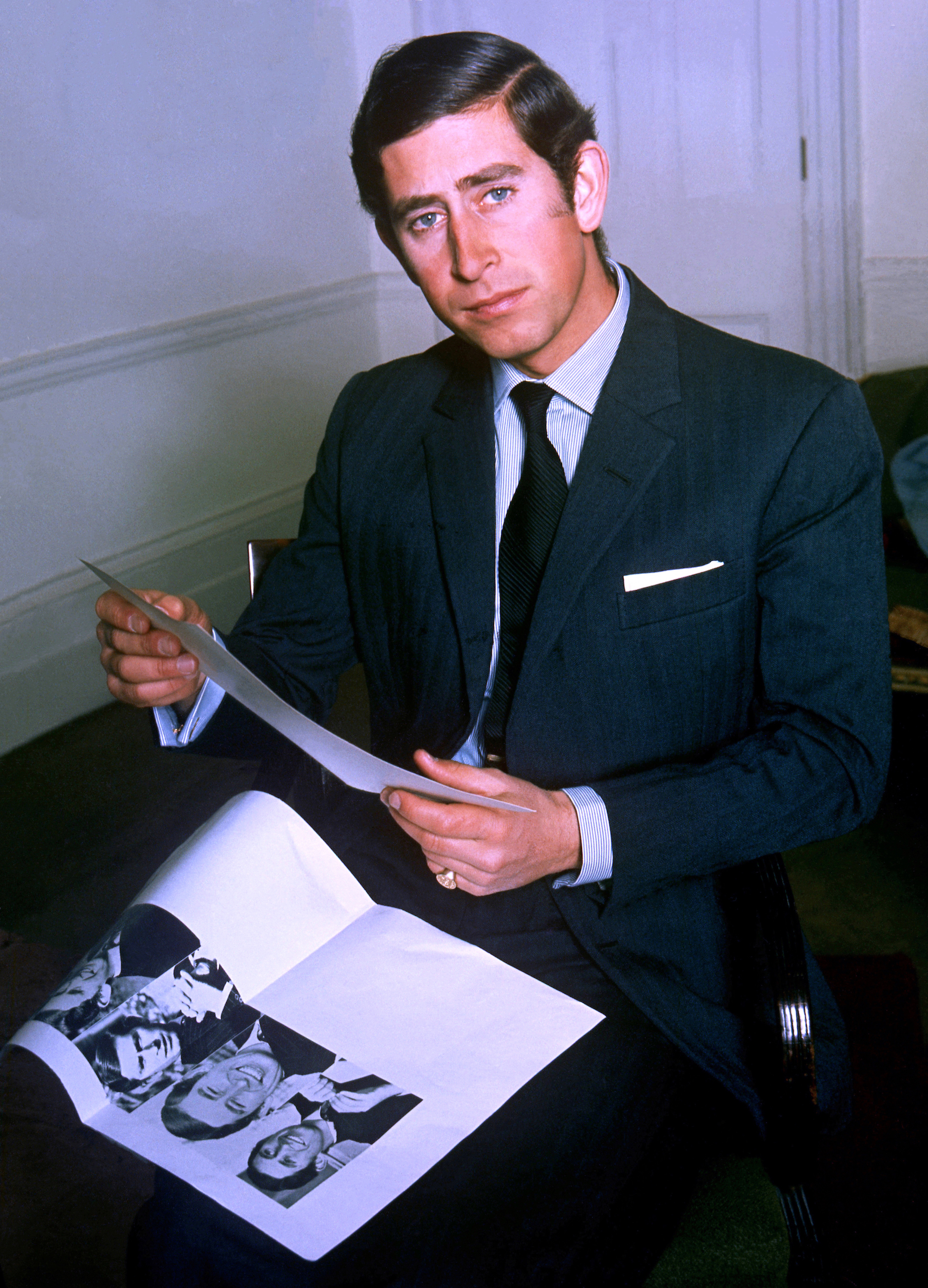 Portrait of HRH Prince Charles Prince of Wales, taken in Buckingham Palace